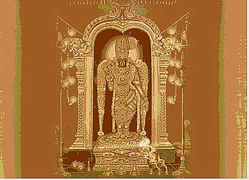 Goddess Meenakshi, Madurai